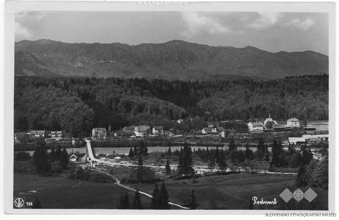 Postcard of Podnart